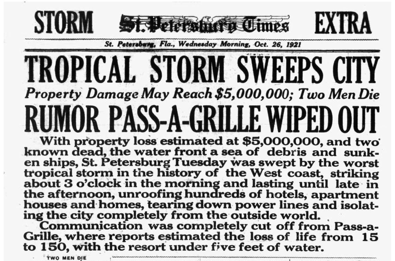 St. Petersburg Times (Florida) headline of October 26, 1921, reporting the 1921 Tampa Bay hurricane.